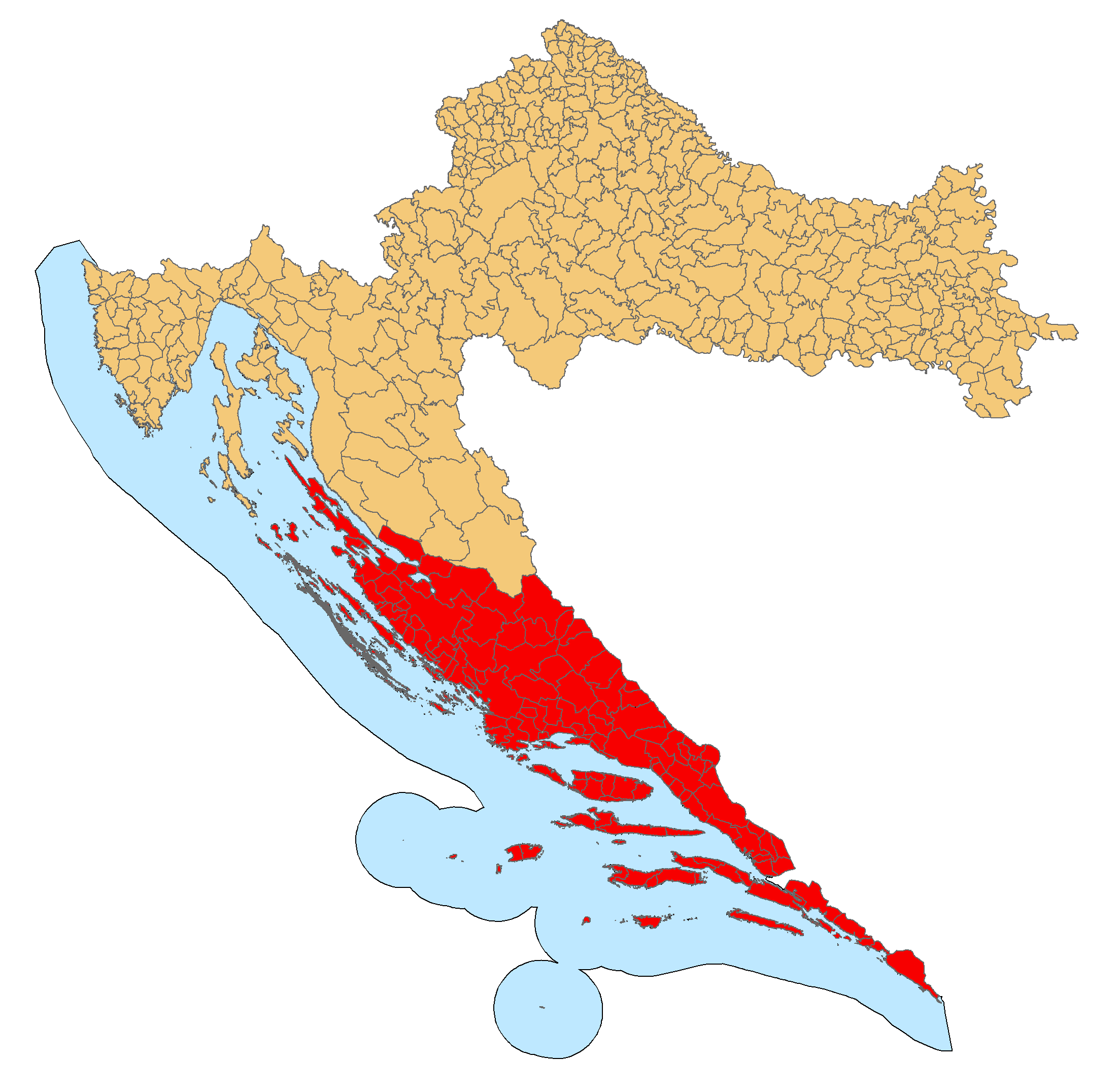 Dalmatia (red) inside Croatia